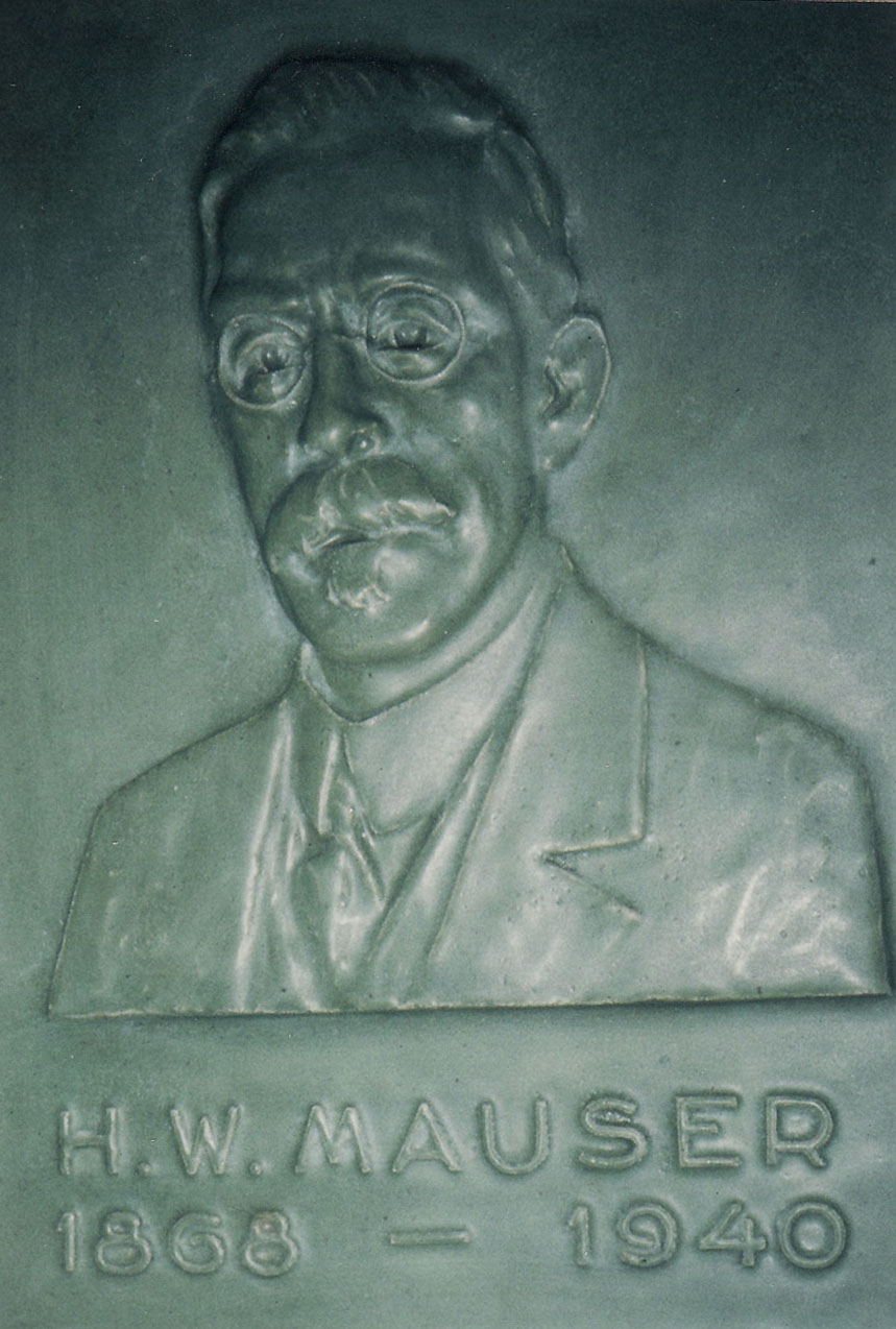 H.W.Mauser